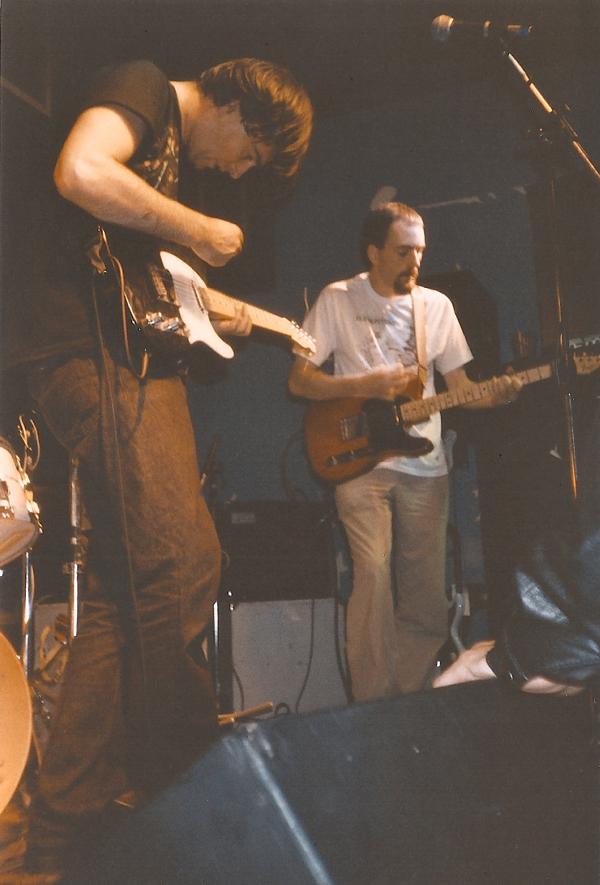 The Jazz Butcher, Jericho Tavern, Oxford, 1989 Oxford Gig photos 1989-90. Includes Ride, Carter, the Shamen, Mega City Four Neate photos facebook page. More neate photos.